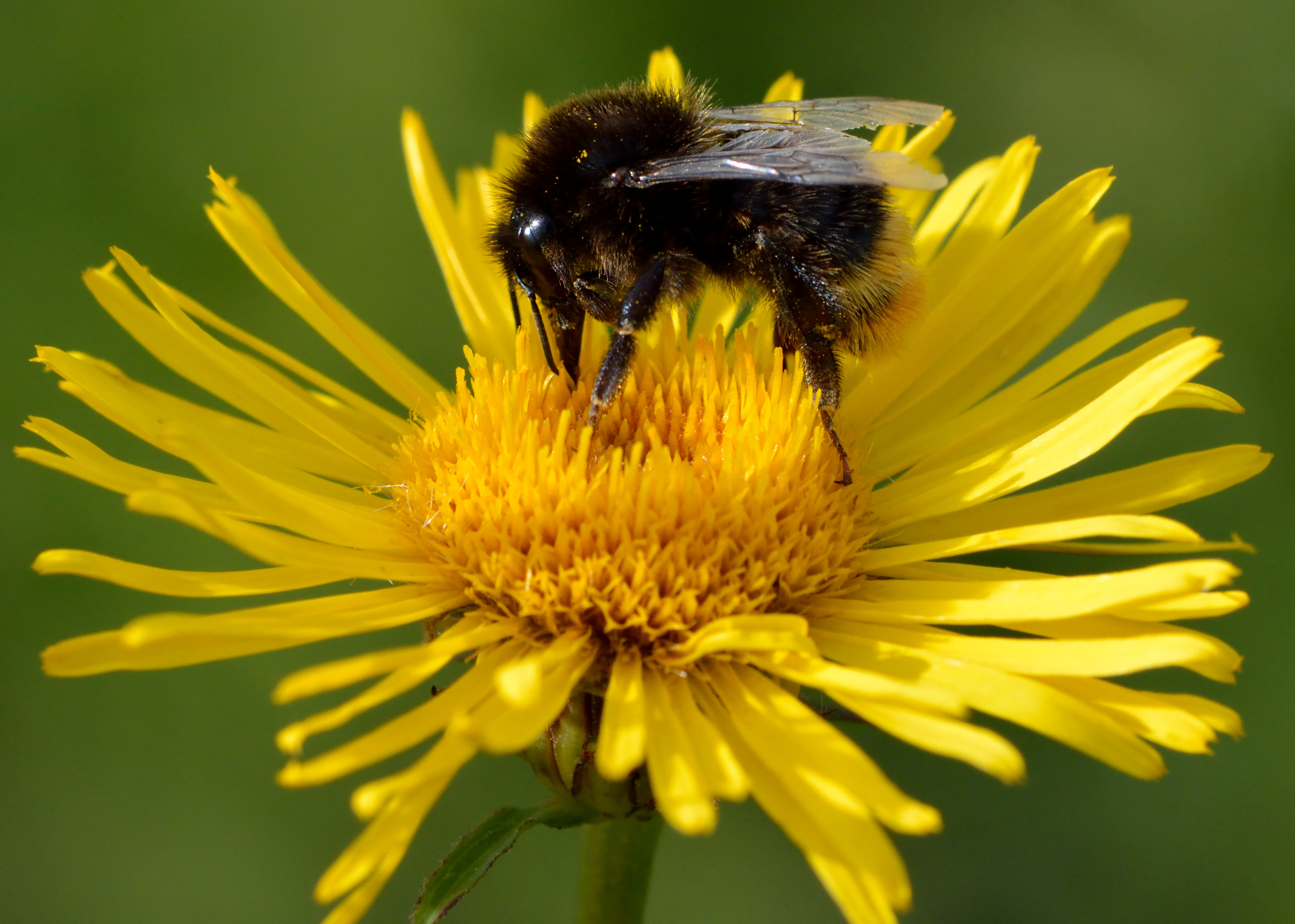 Red-tailed bumblebee (Bombus lapidarius) on the willowleaf yellowhead (Inula salicina). Valingu, Northwestern Estonia.